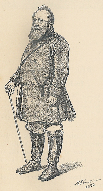 Hans Helgesen. 1793-1858.